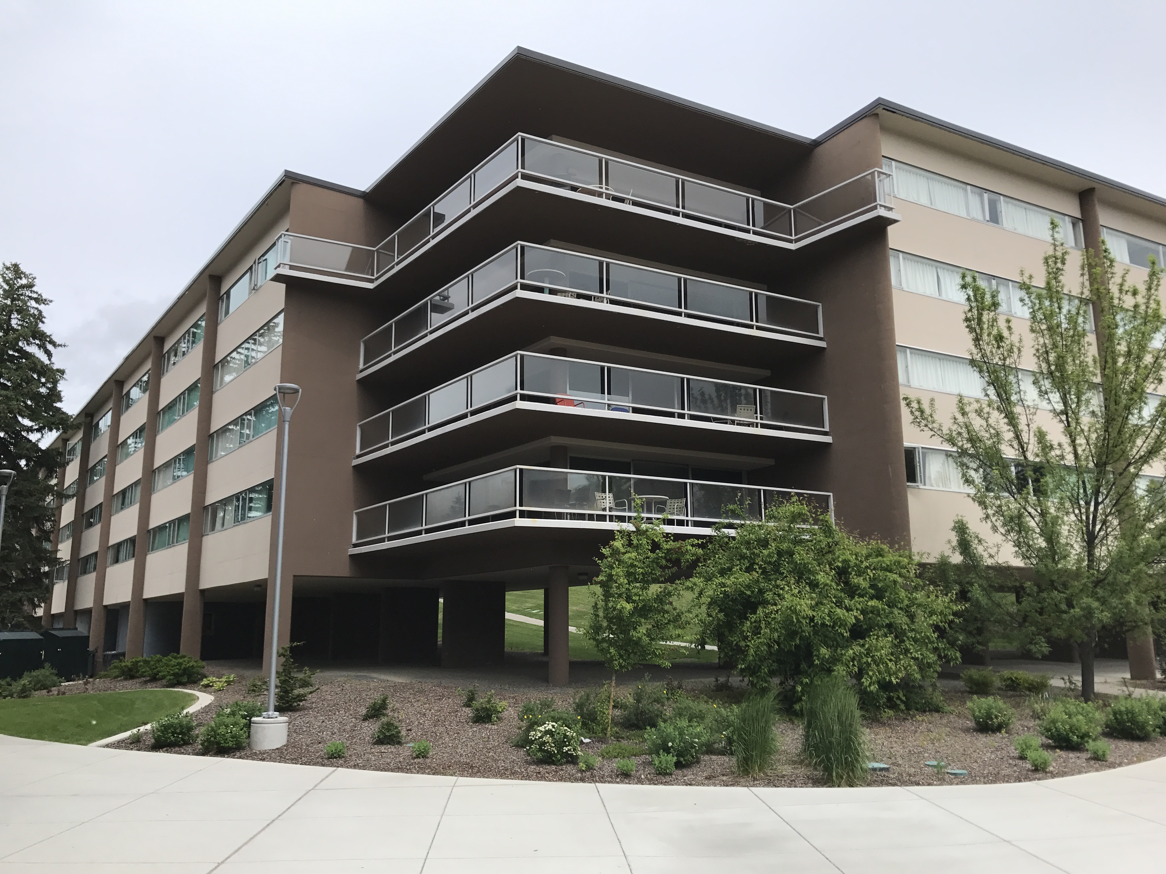 Regents Hill, with Barnard Hall to the left and McGregor Hall to the right, May 2017.